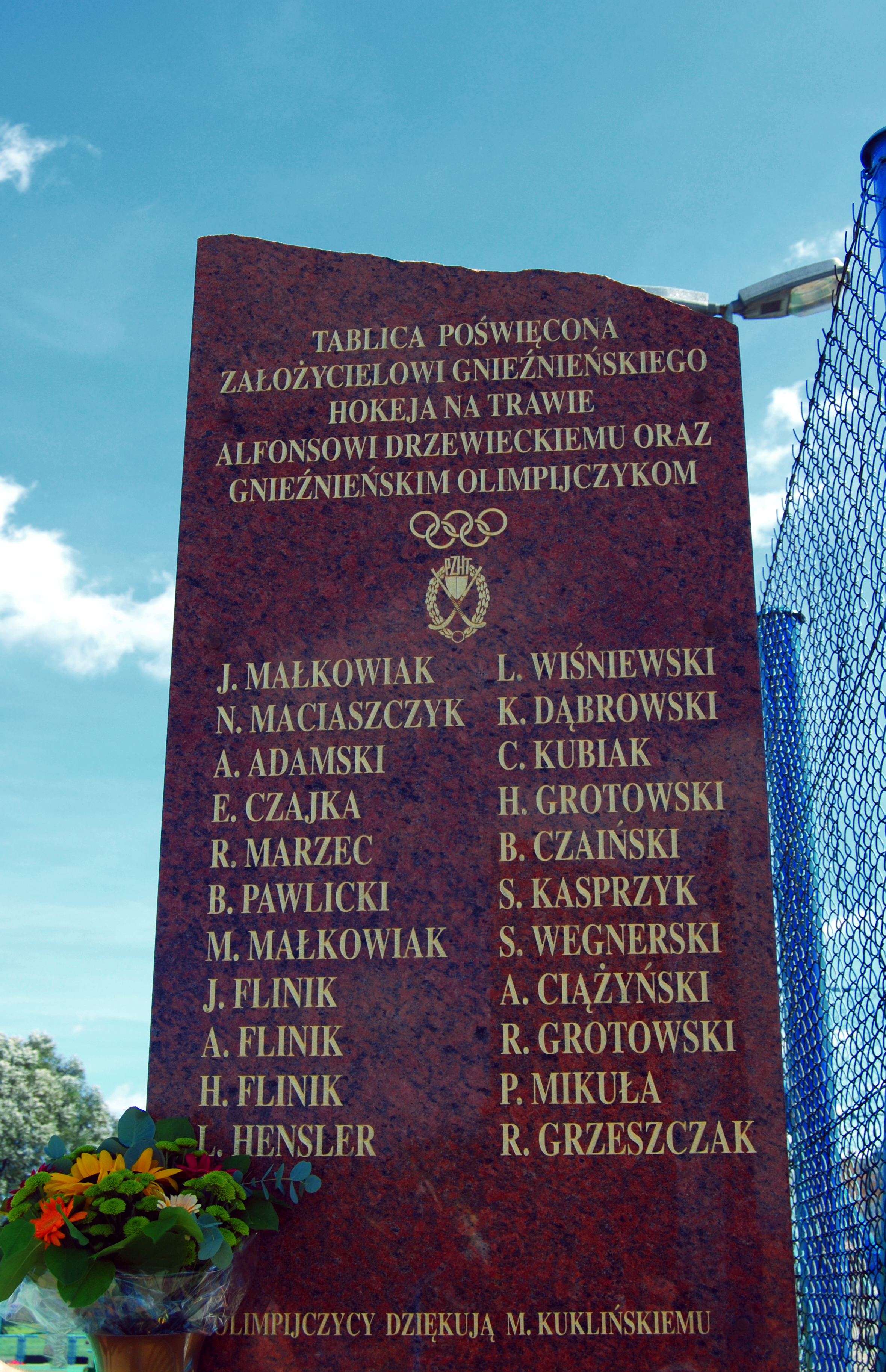 Tablica_olimpijczyków